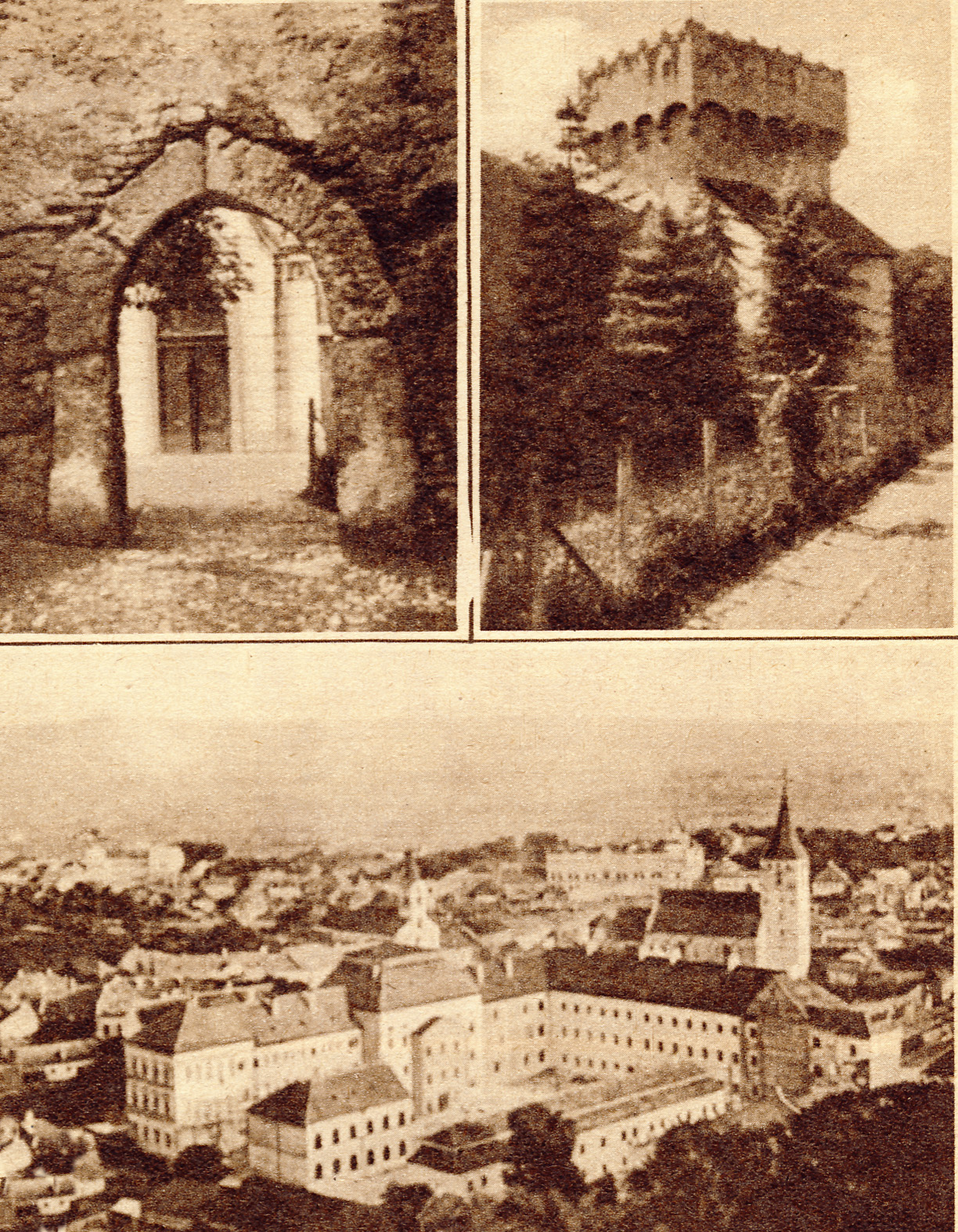 View of Nagyenyed, south gate of the castle, tower of castle in 1905.